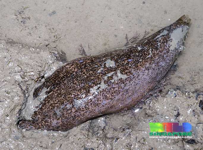 "Smooth" sea cucumber, maybe Acaudina leucoprocta. More about this sea cucumber on the wildfacts sheets on wildsingapore. For a high res version of this photo, please review the details on about using my photos. When making the request, please include this reference: 110519chgd2274